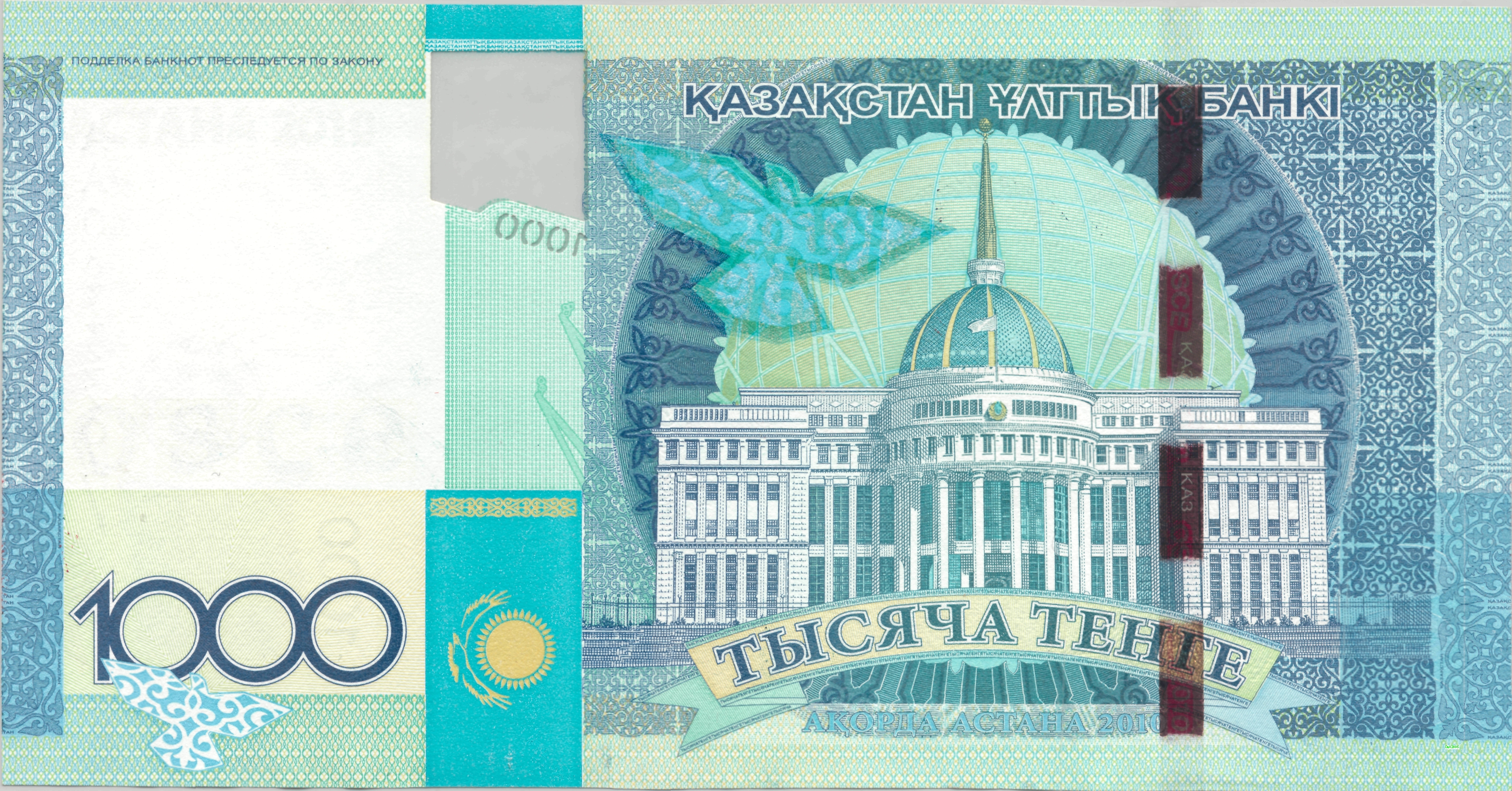 The reverse side of 1000 tenge commemorative banknote for 2010 year - the Chairmanship of Kazakhstan in OSCE